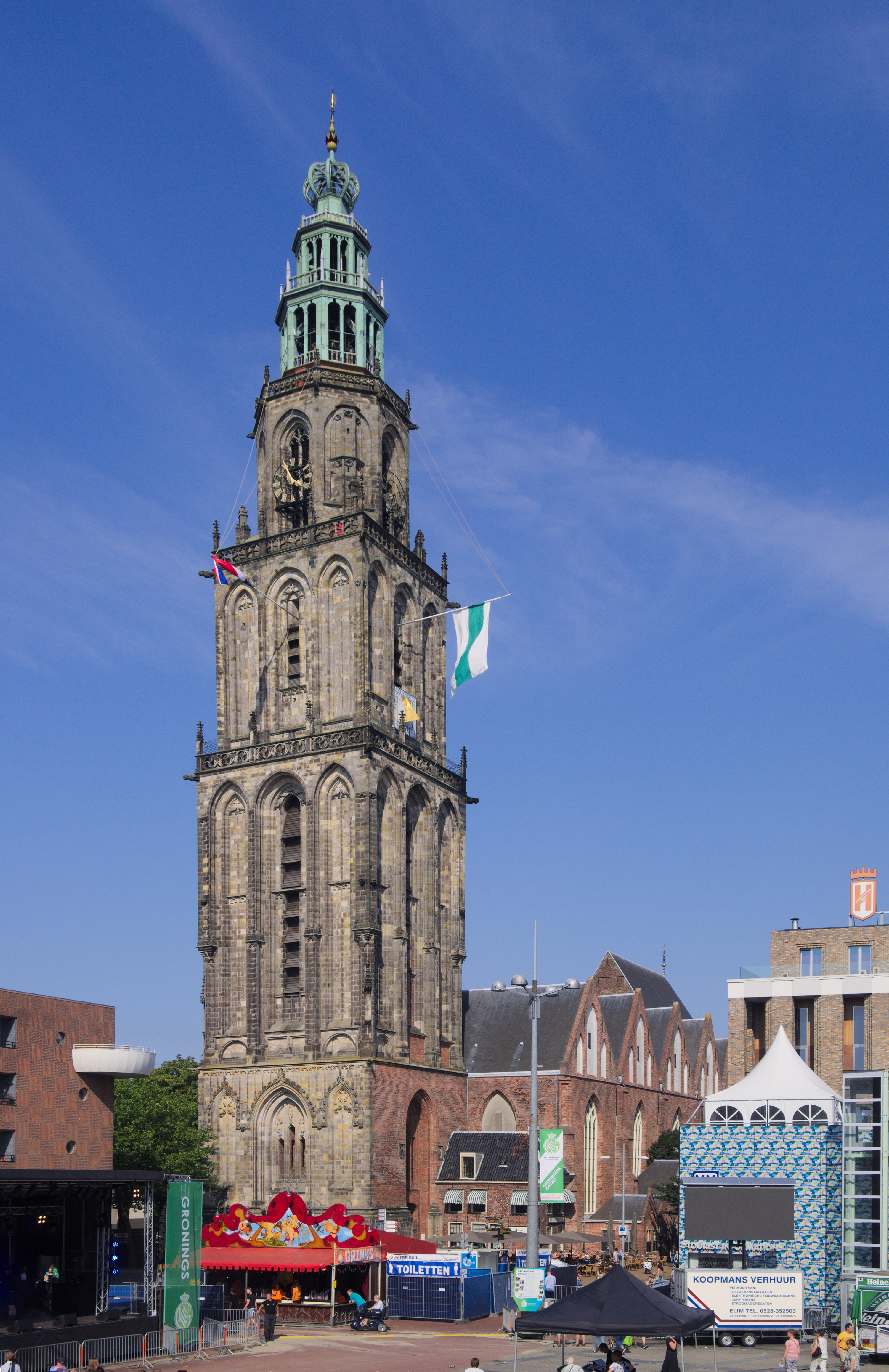 View of Martinitoren.